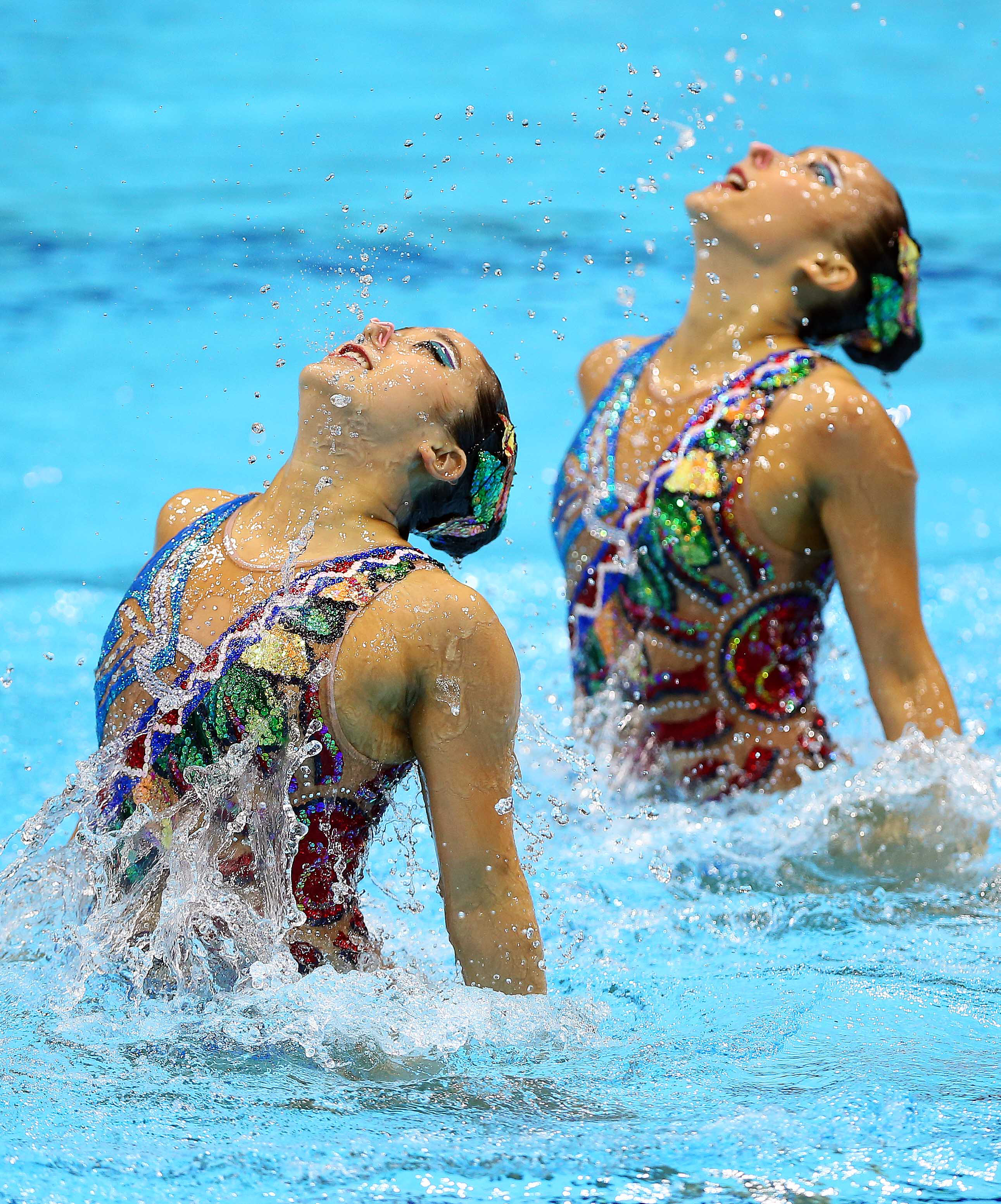 2012 London Olympic Games Korea Synchronised Swimming Team, Park Hyunha and Park Hyunsun. 2012.08.06. Photo by Korean Olympic Committee Ministry of Culture, Sports and Tourism Korean Culture and Information Service 2012 런던 올림픽 여자 싱크로나이즈 스위밍 박현선-박현아 자매 사진제공 - 대한체육회 문화체육관광부 해외문화홍보원